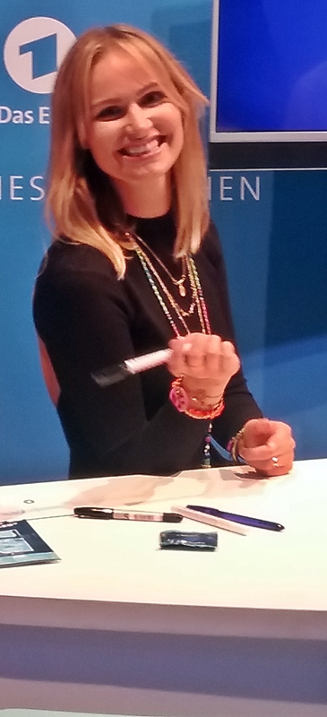 Isabell Ege signs autographs at IFA 2018